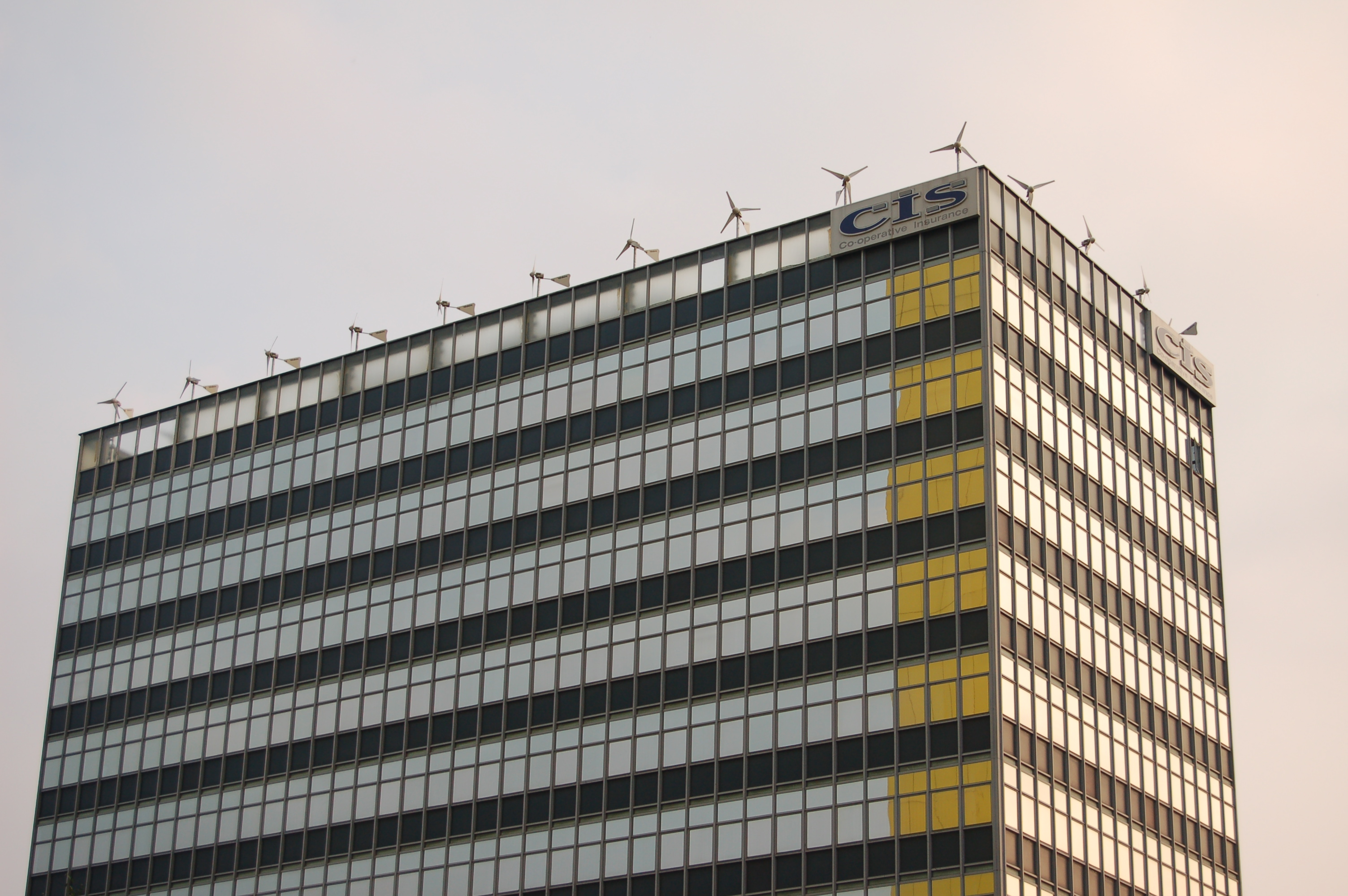 Co-operative Insurance building, Manchester, with wind turbines on roof